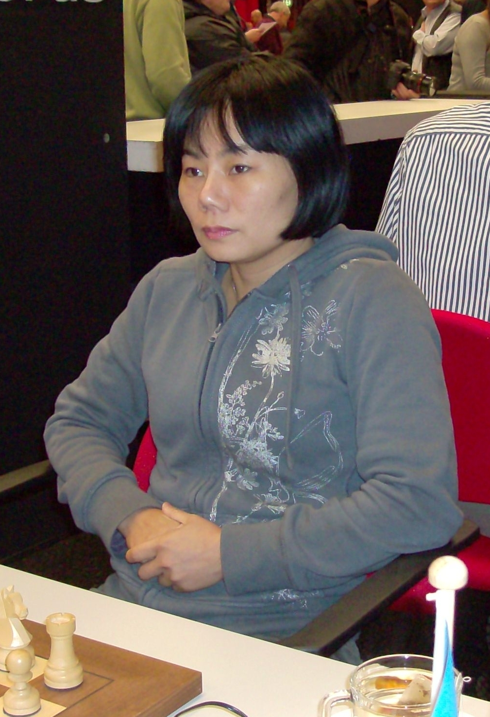 Peng Zhaoqin, chess grandmaster